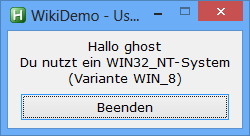 WikiDemo for Autohotkey - A simple GUI